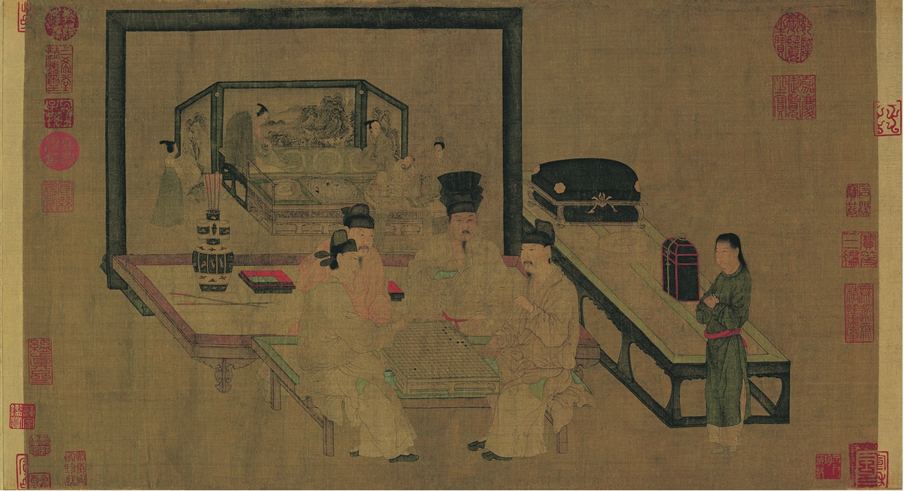 Chinese Go-players